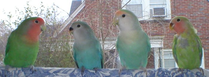 A family of four lovebirds. The birds, from left to right, are named Parsley, John, Thyme, and Abagail. Parsley and Thyme are named as part of a group of four lovebirds (Parsley, Sage, Rosemary and Thyme). John and Abagail are their two chicks, recently fledged. Picture taken by User:Fennec.